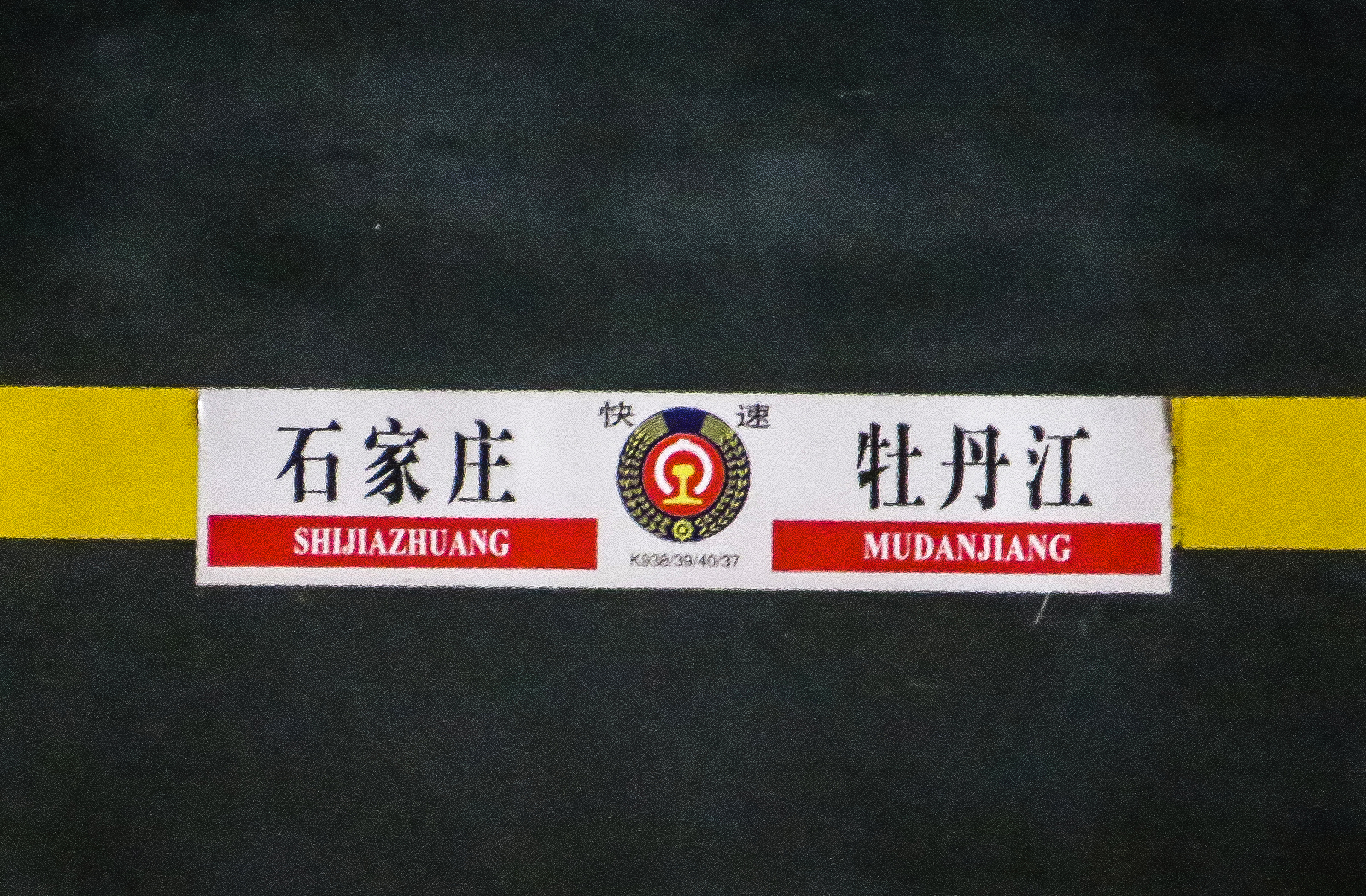 Quick view at Shijiazhuang. Who knows where it will go next?